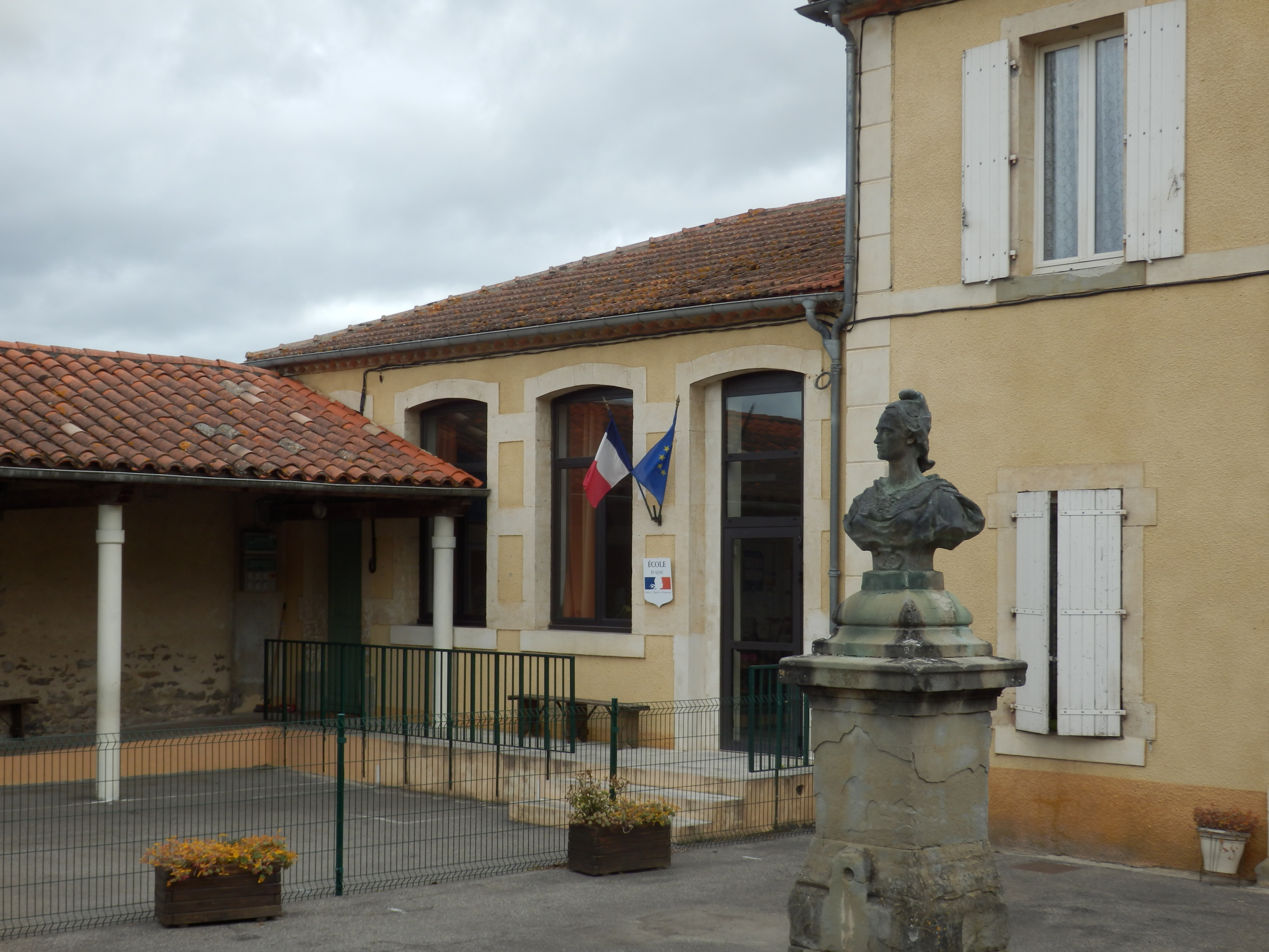 Town hall of Ajac, Aude, France